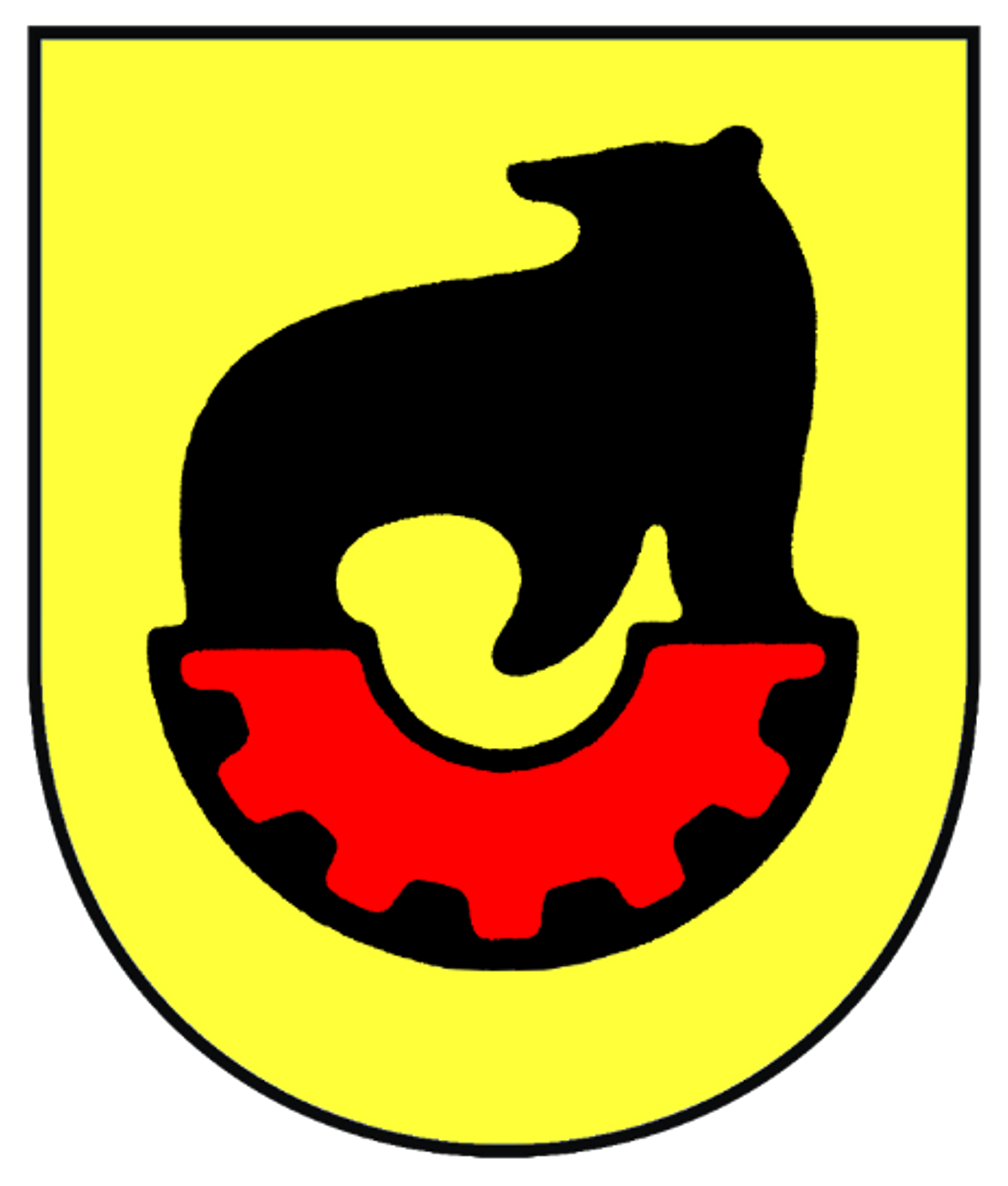 Crest of town Ursus near Warsaw 1970-1977 & 1993-1996